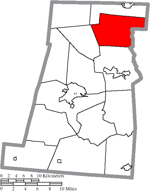 Map of the municipal and township boundaries of Madison County, Ohio, United States, as of the 2000 census, with the location of Canaan Township highlighted. Township borders are shown only in unincorporated areas in order to differentiate incorporated and unincorporated areas more clearly.